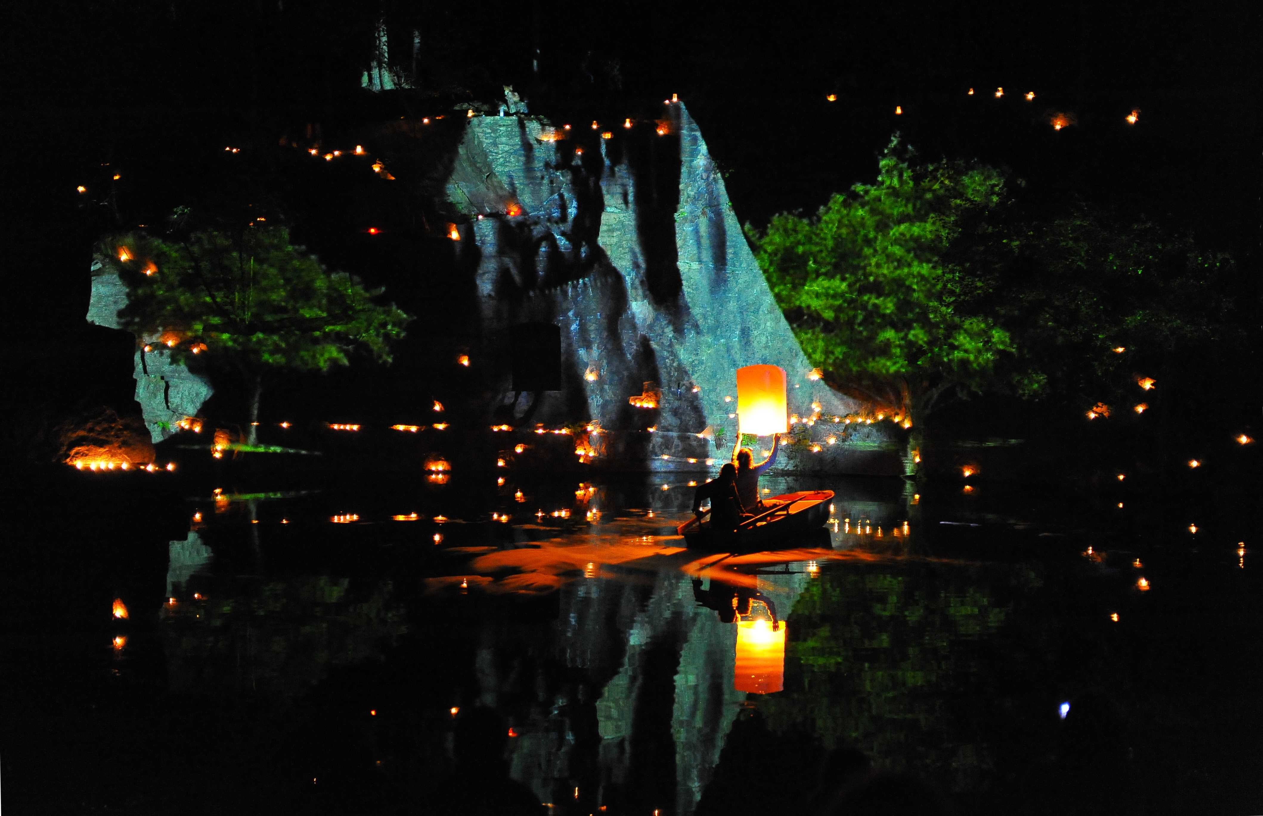 Concert Clarinet Factory - Nečín 2011